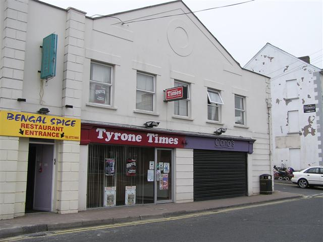 Tyrone Times offices, Dungannon Located at Thomas Street, more at